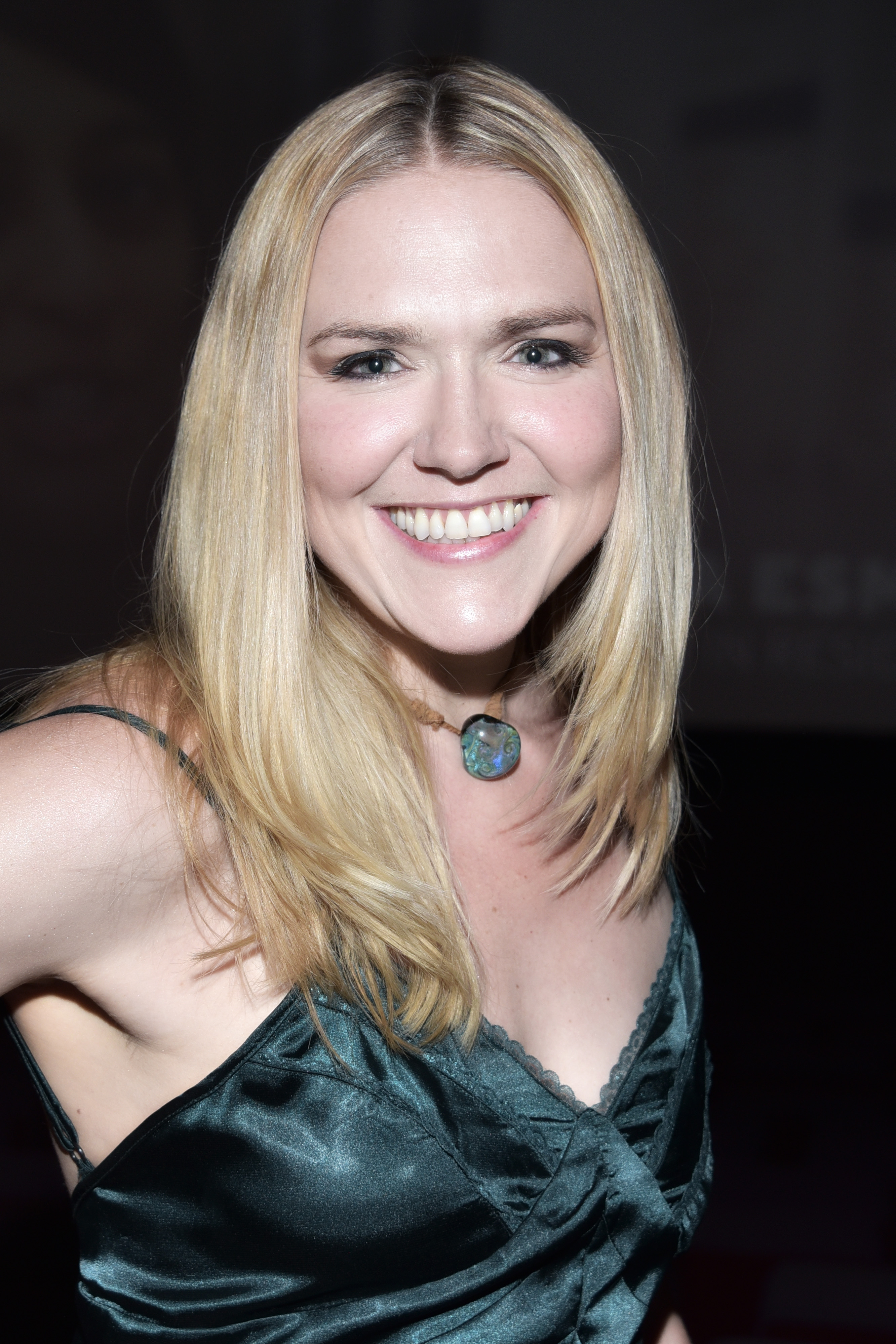 Dominique Swain, Beverly Hills, California on April 28, 2017 - Photo by Glenn Francis of